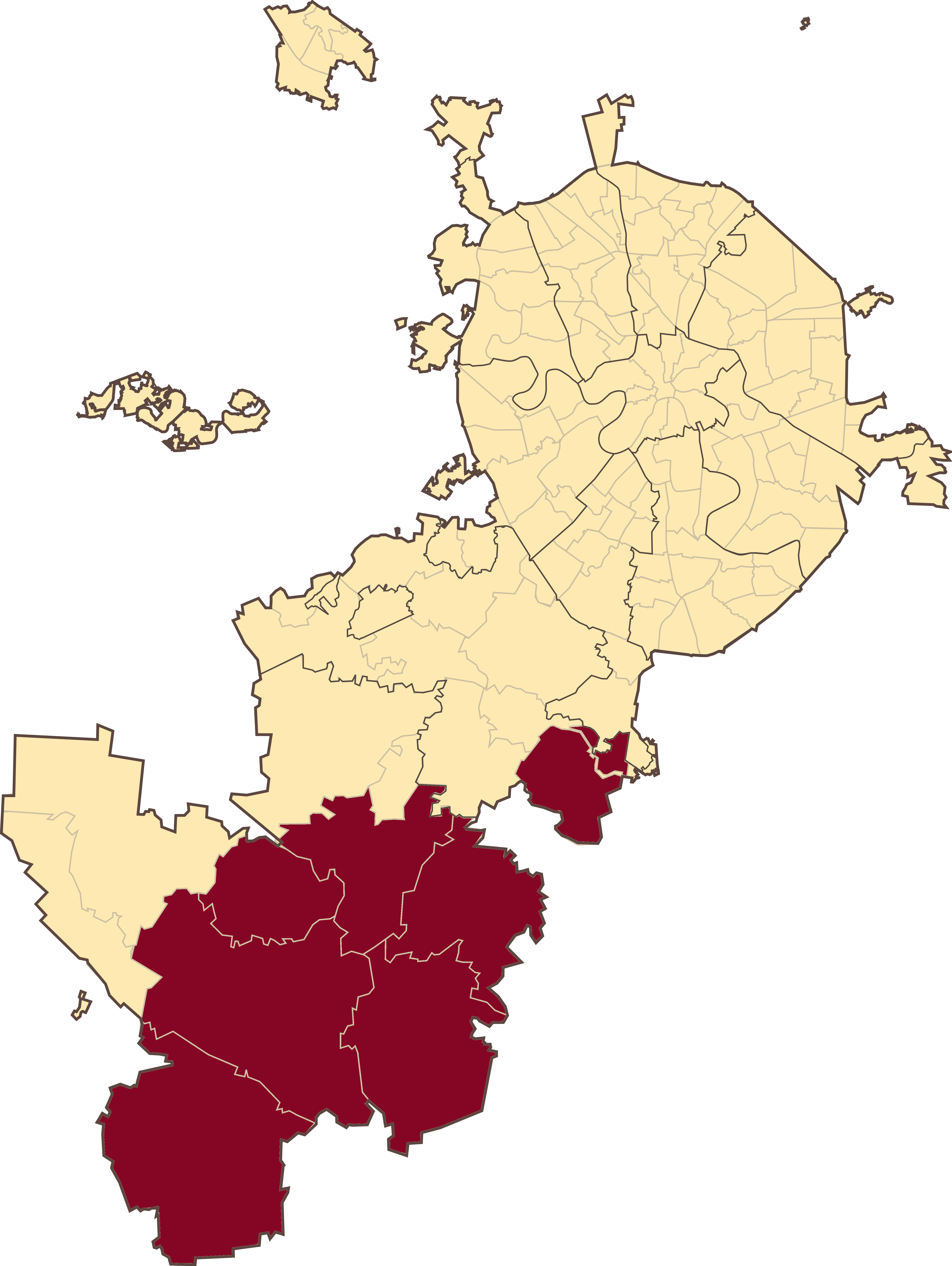 Map of Nikol'skoe Blagochinie of Moscow